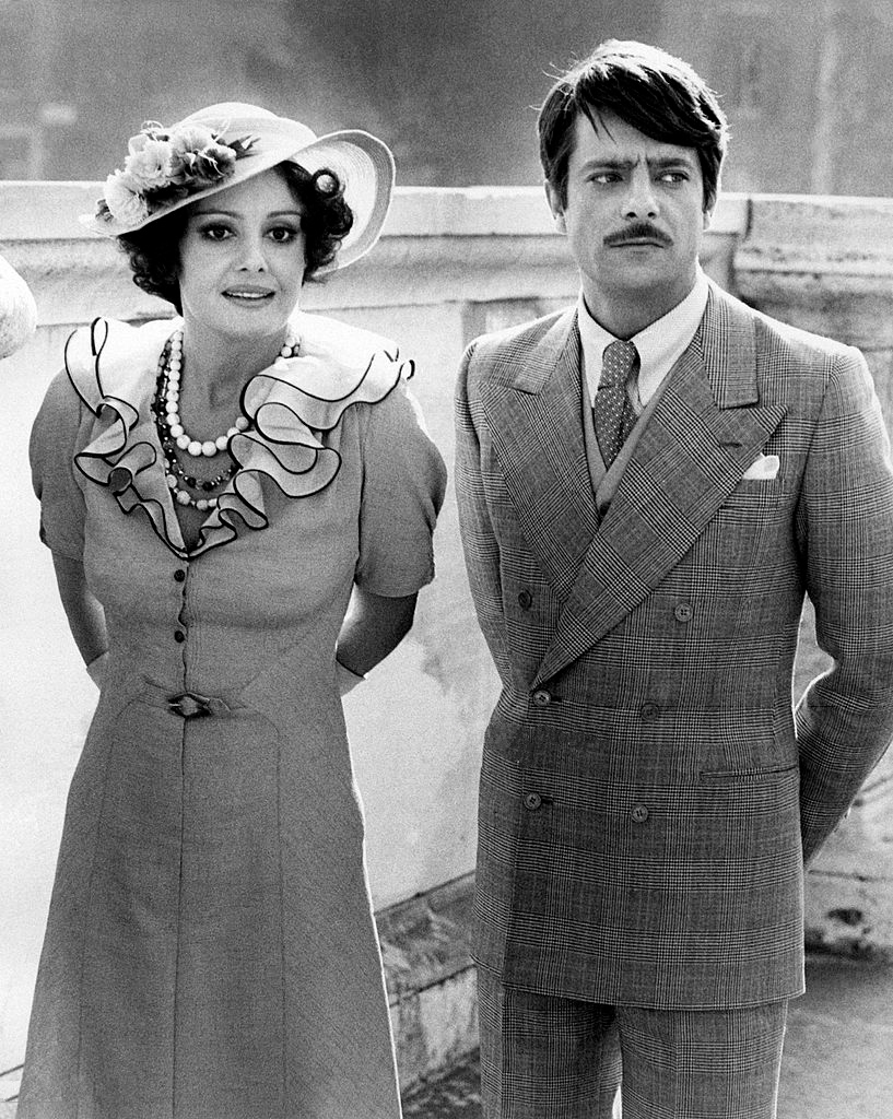 Italian actress Rossana Podestà (Carla Dora Podestà) and Italian actor Giancarlo Giannini waiting for the beginning of a new scene on the set of the film The Sensual Man. Rome, 1973